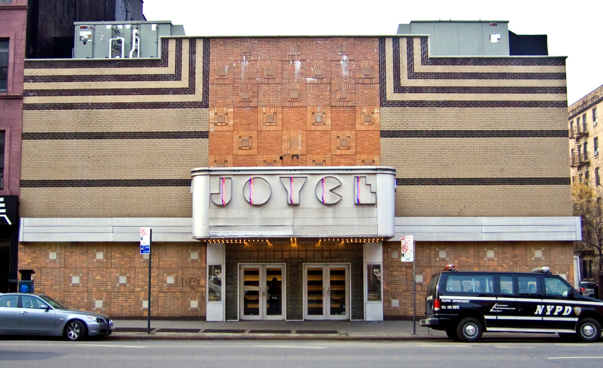 Wikipedia Loves Art at the Film Society of Lincoln Center This photo of Joyce Theater supported by the Film Society of Lincoln Center was contributed under the team name "The_Grotto" as part of the Wikipedia Loves Art project in February 2009. The original photograph on Flickr was taken by cjn212—please add a comment to the original Flickr page whenever a use has been made on Wikipedia or another project. Project galleries on Flickr: this institution, this team